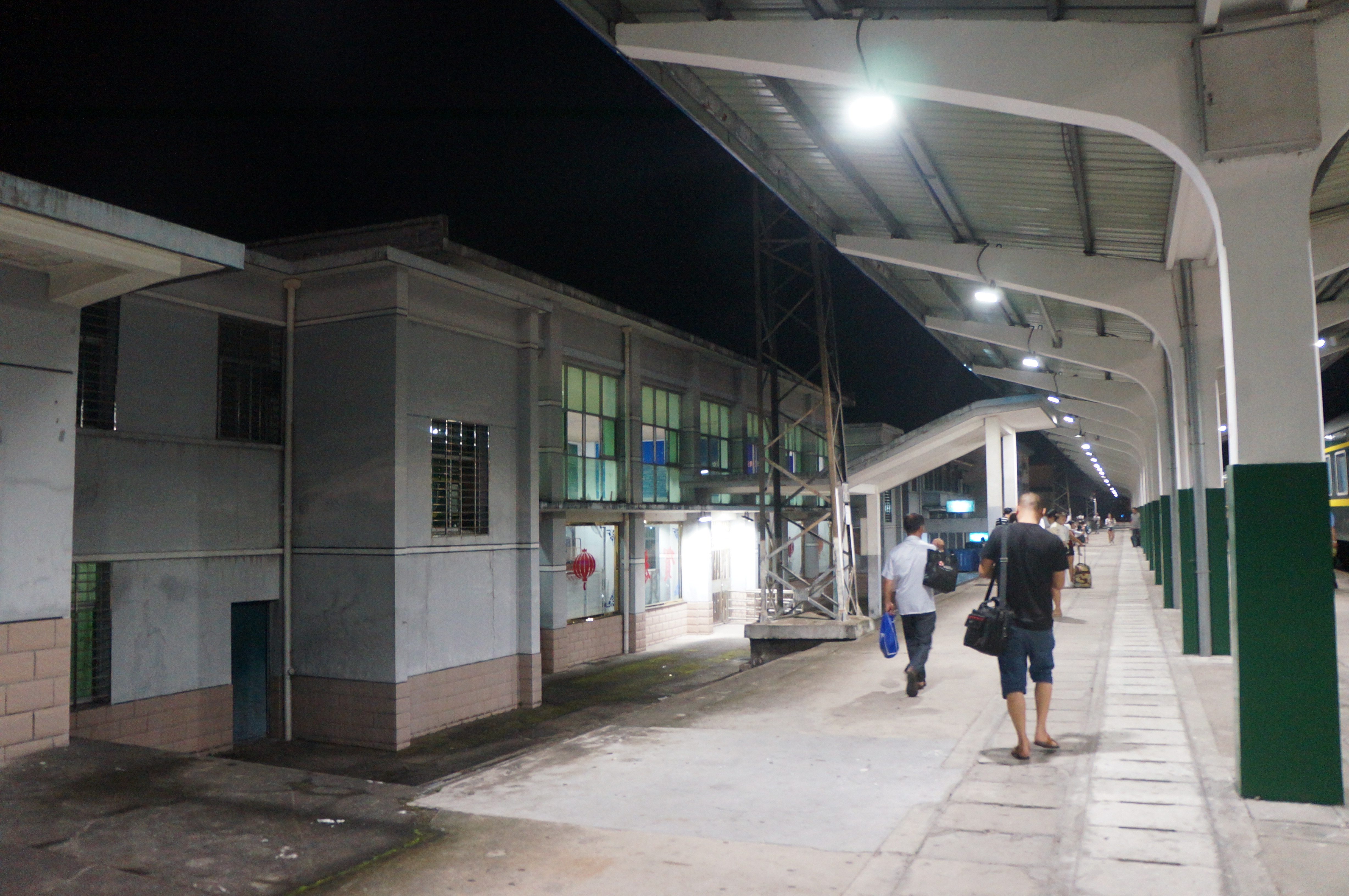 201708 Station building of Guangze Station